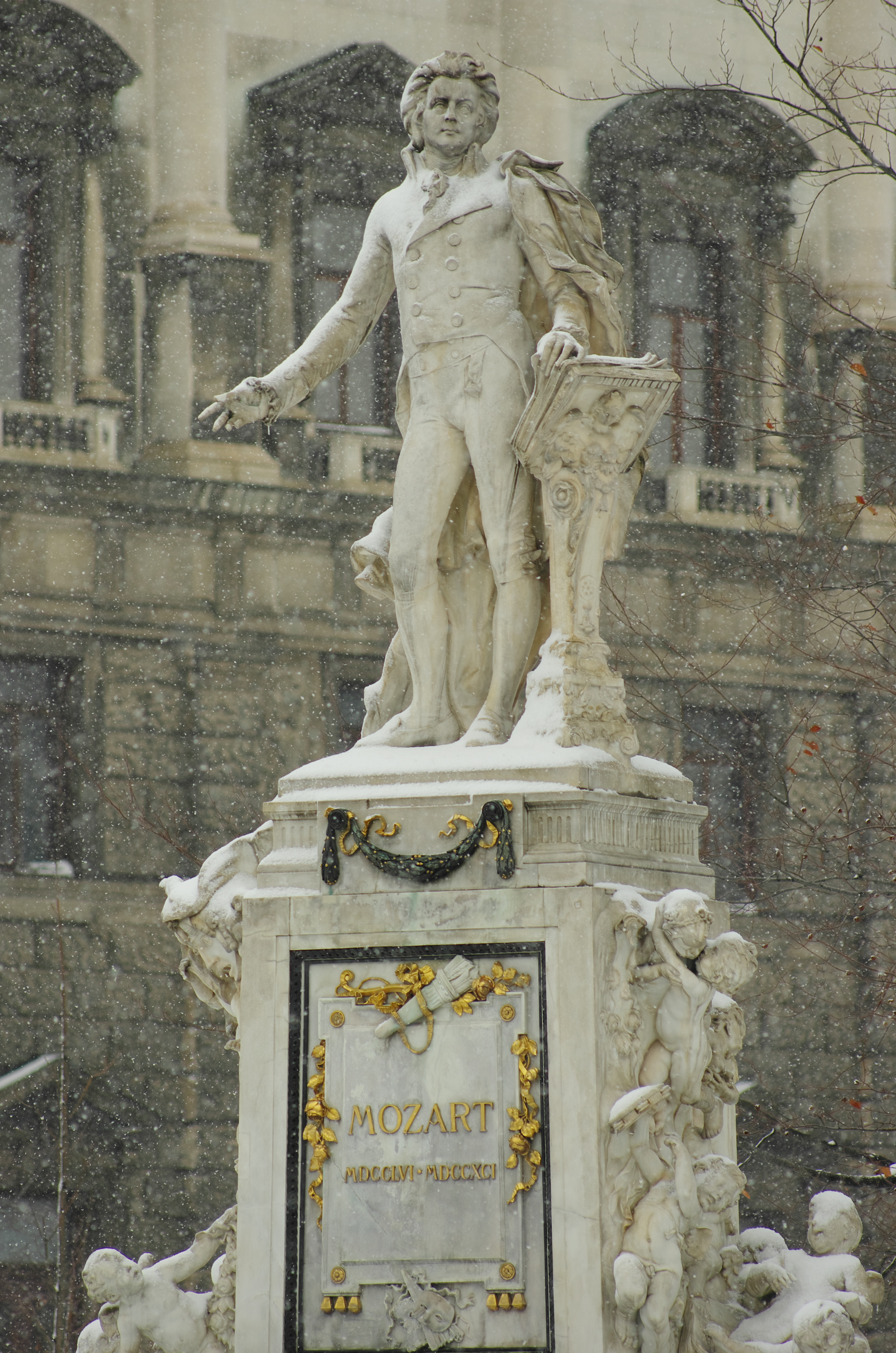 Austria, Vienna, Burggarten